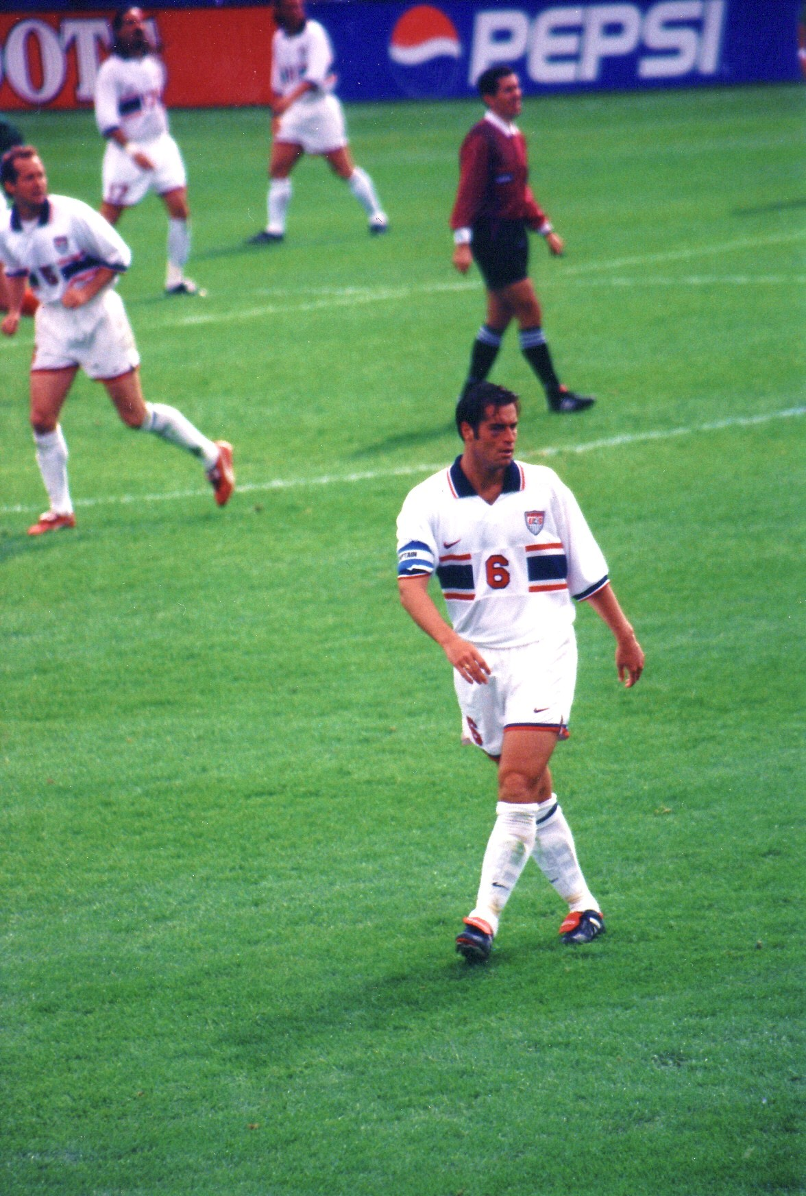 John Harkes playing at Foxboro Stadium in the USA vs Mexico qualifying match for the World Cup